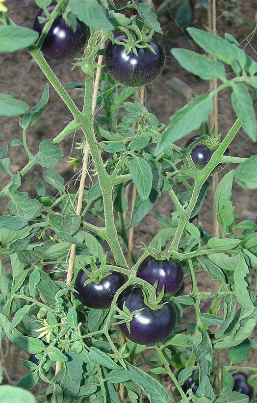 Photo of the P20 blue tomato as developed by Jim Myers of OSU.